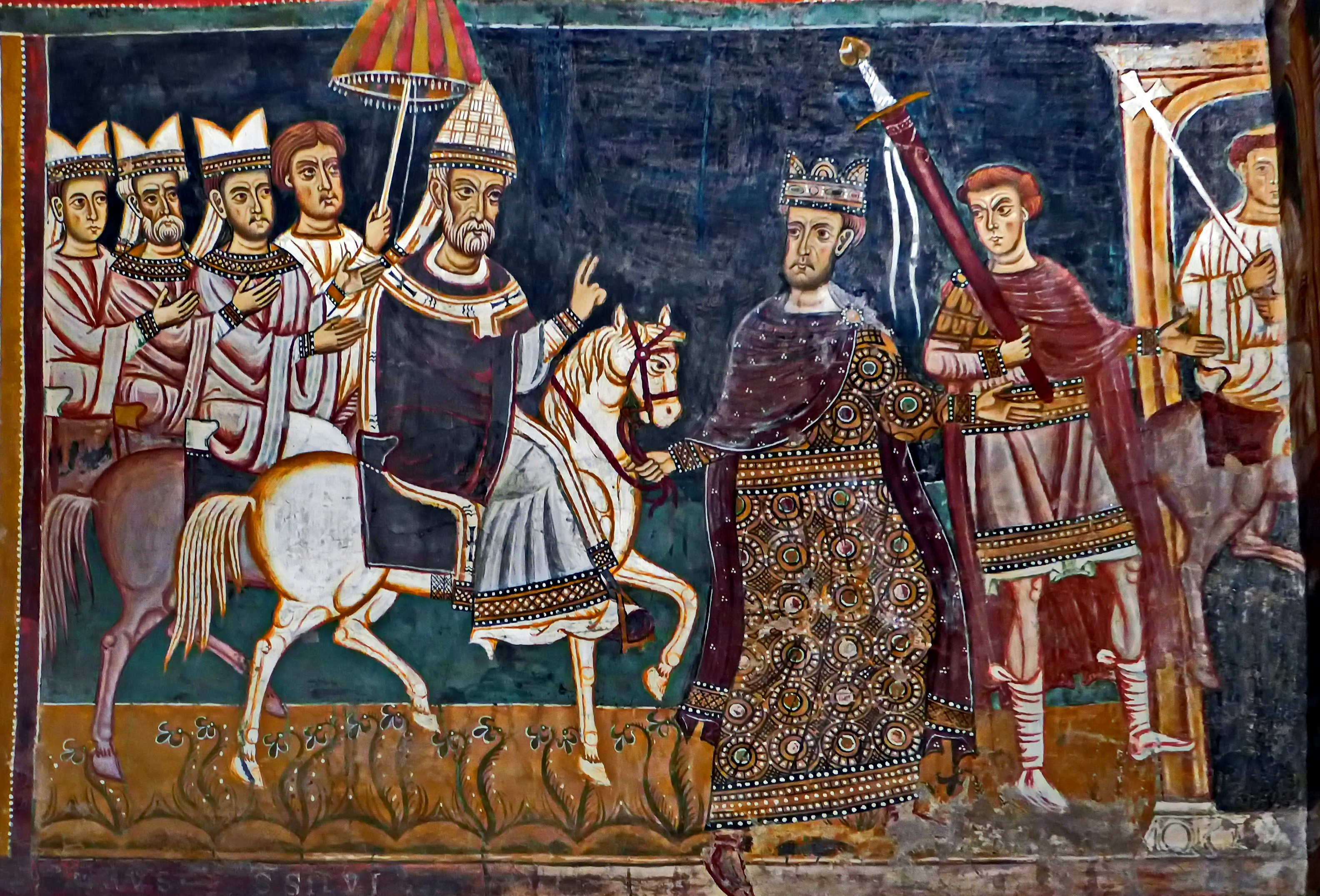 Rome, Basilika Santi Quattro Coronati, Chapel of Sylvester